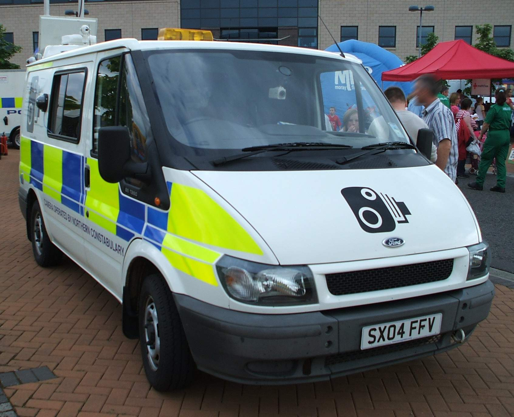 Ford Transit van - Road Speed Cameras Enforcement